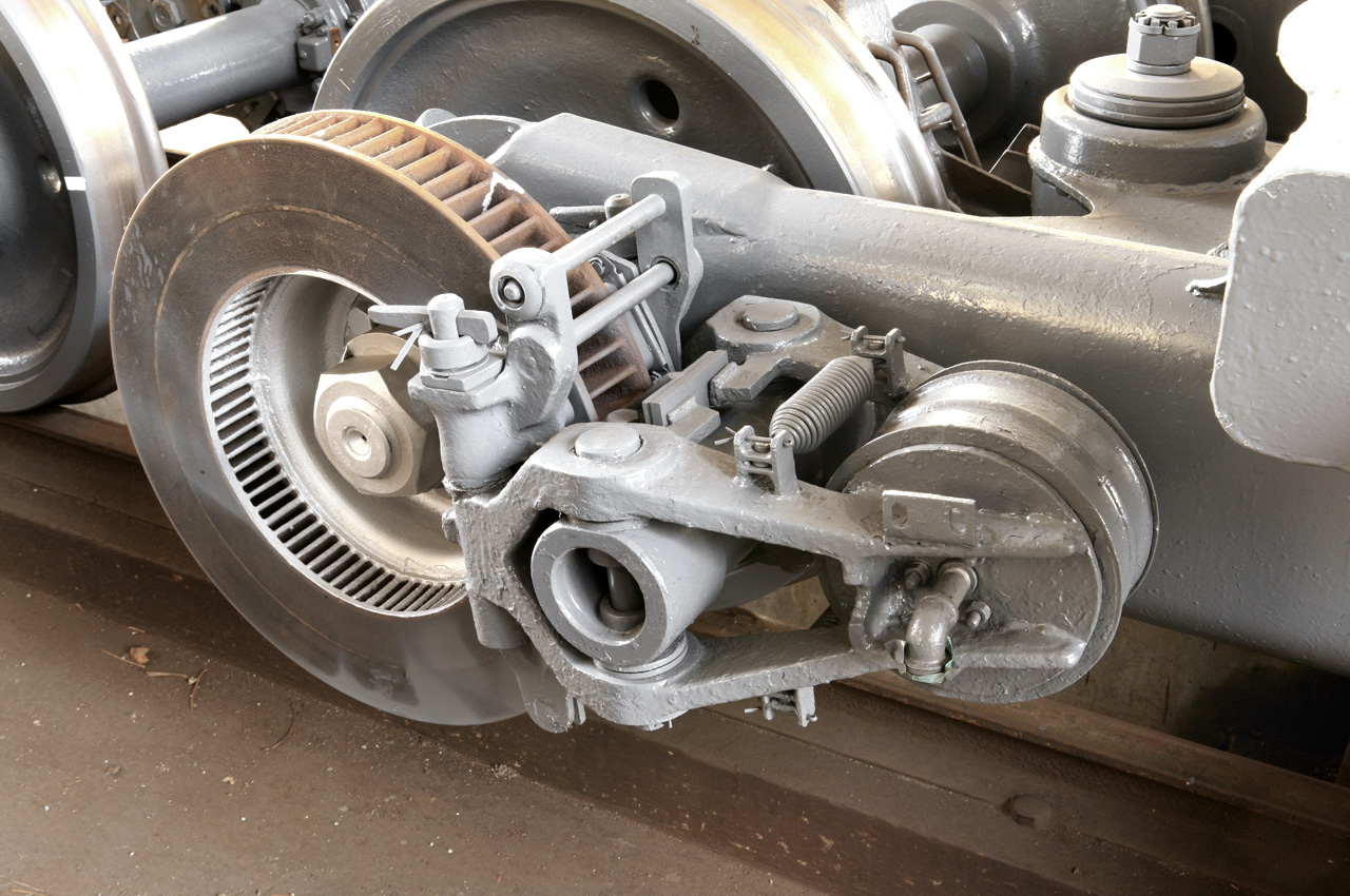 Type TS-701 bogie truck of the Mizuma Railway Type 1000 EMU ( without brake hose ).